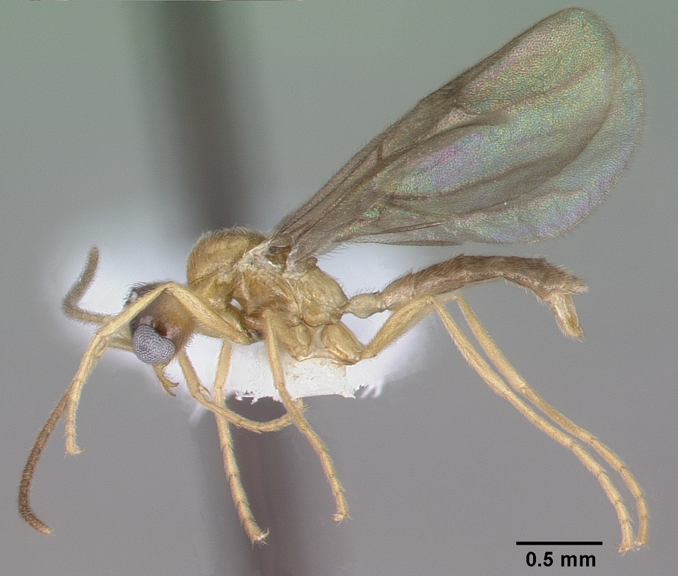 Profile view of ant Leptanilloides mckennae specimen casent0010699.